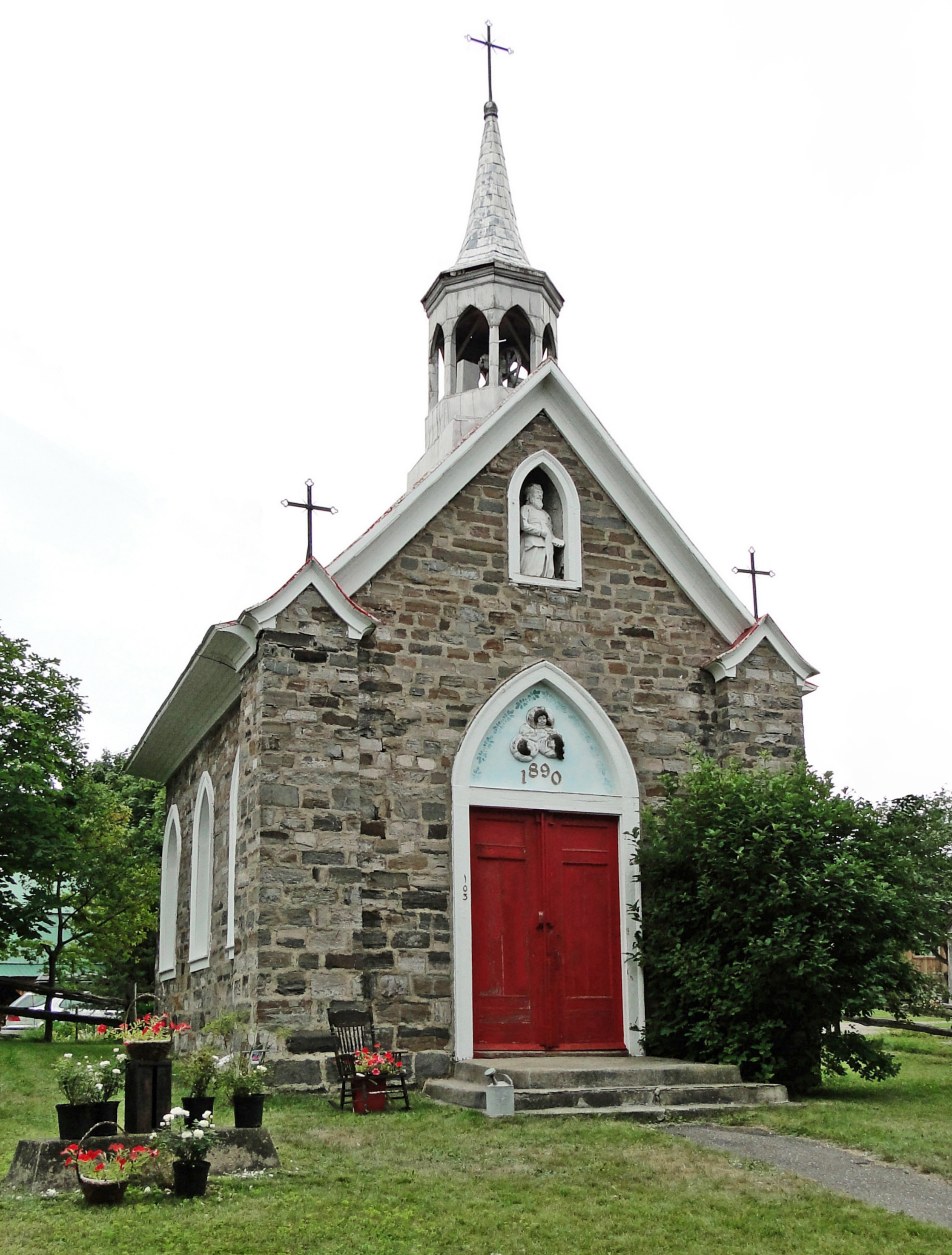 Processional Chapel of Saint-Jean-Port-Joli (1890), Province of Quebec, Canada